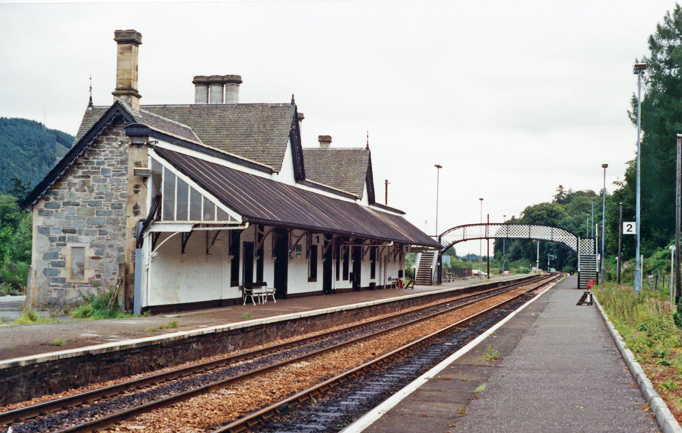 Dunkeld & Birnam station, 1991. View SE, towards Perth and the South: ex-Highland Railway Perth - Inverness main line.